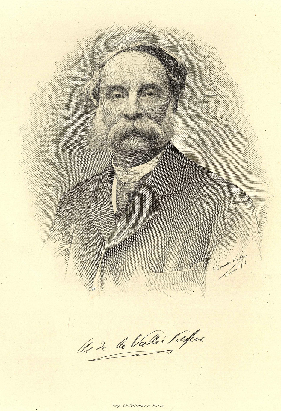 Belgian geologist and mineralogist Charles-Louis de La Vallée Poussin (1827-1903), a lithography form an obituary in the magazine of the Belgian geological society.